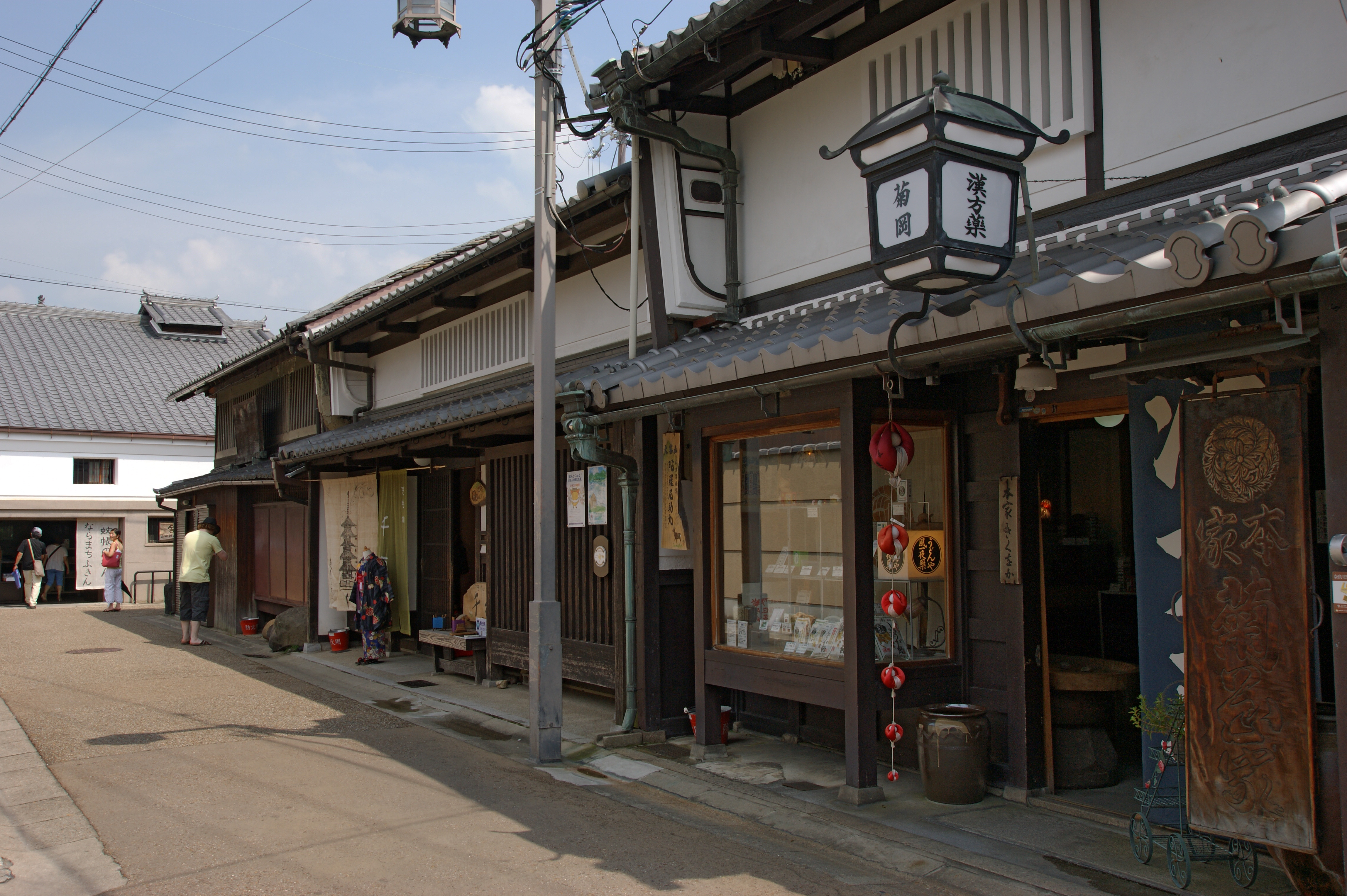 Naramachi in Nara, Nara prefecture, Japan